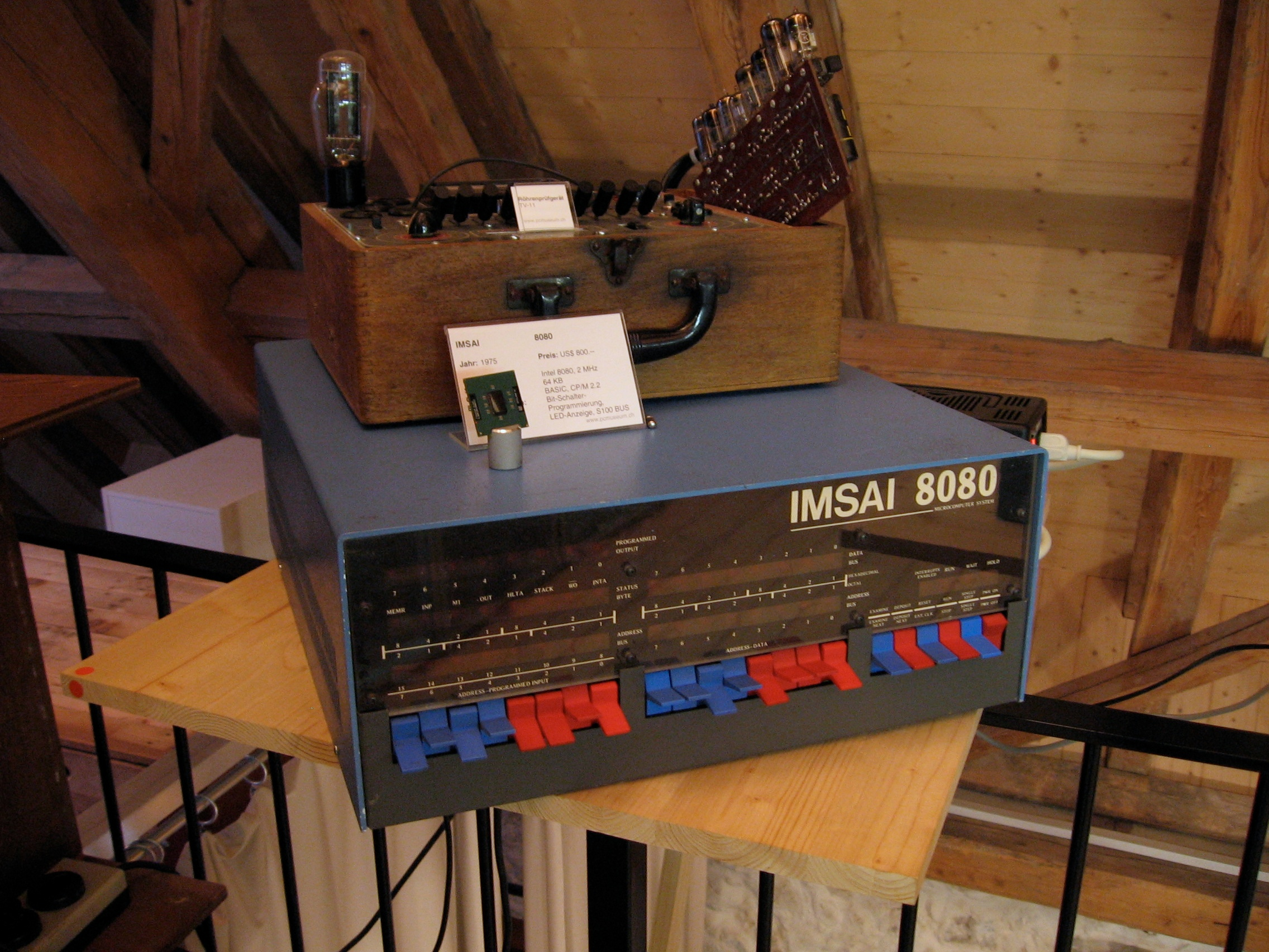 IMSAI 8080 computer